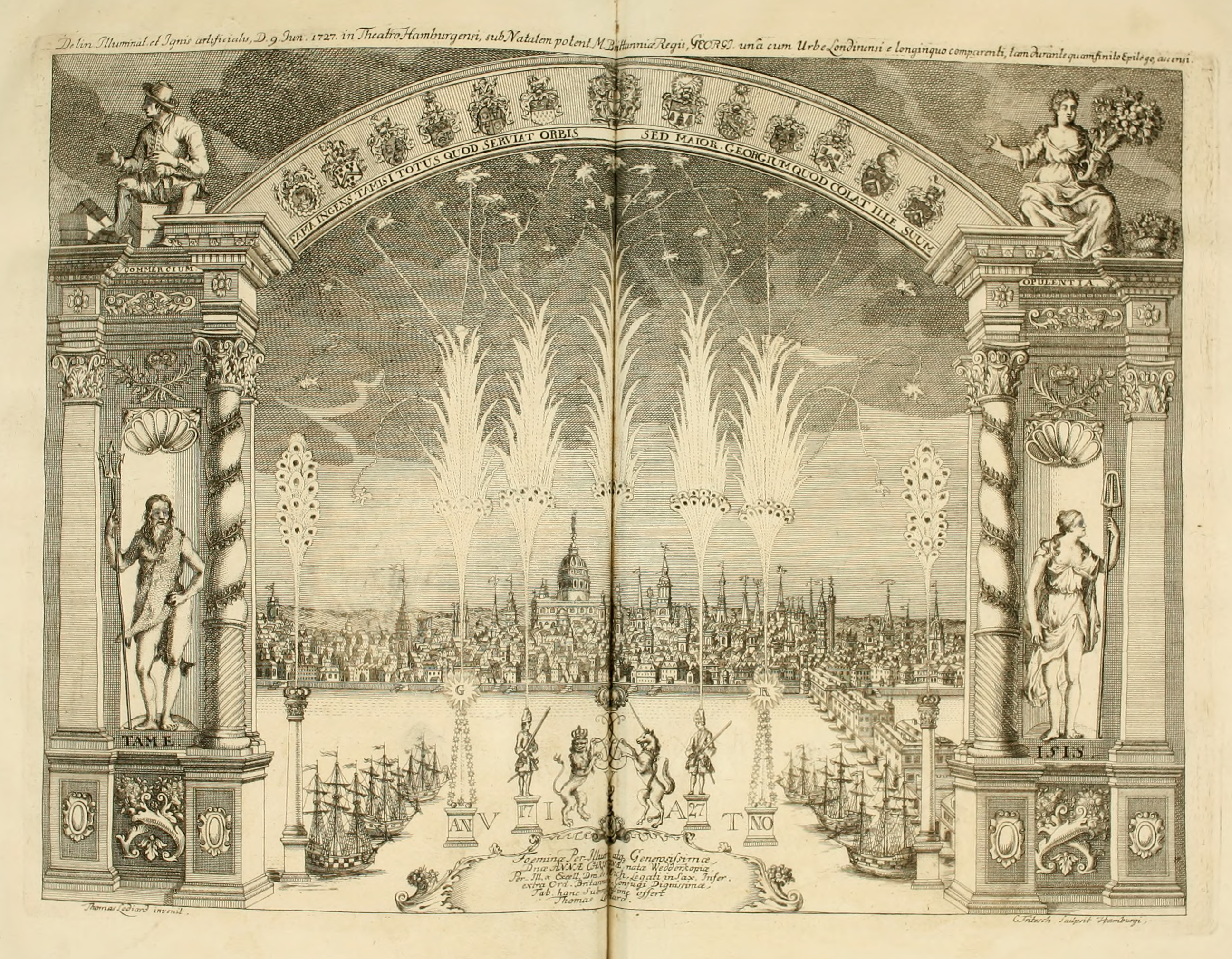 Engraving of epilogue with fireworks devised by Thomas Lediard for a performance of Handel's opera Giulio Cesare on 9 June 1727 in the Opera House, Hamburg. The event marked the birthday of George I of Great Britain. Taken from Lediard's book "Eine Collection curieuser Vorstellungen in Illuminationen und Feuer-Wercken".